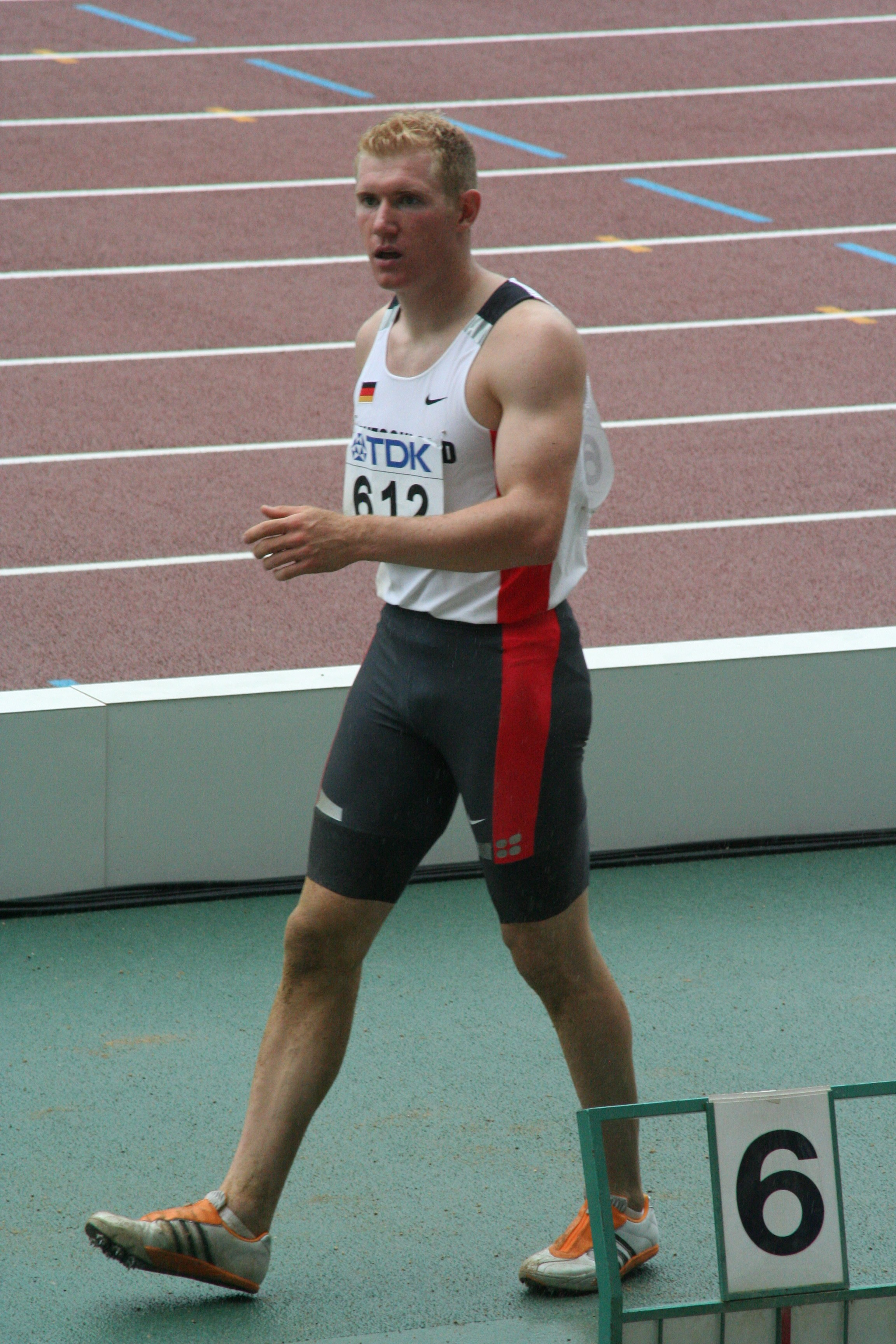 World Athletics Championships 2007 in Osaka - German Decathlete Arthur Abele during the long jump part of the decathlon